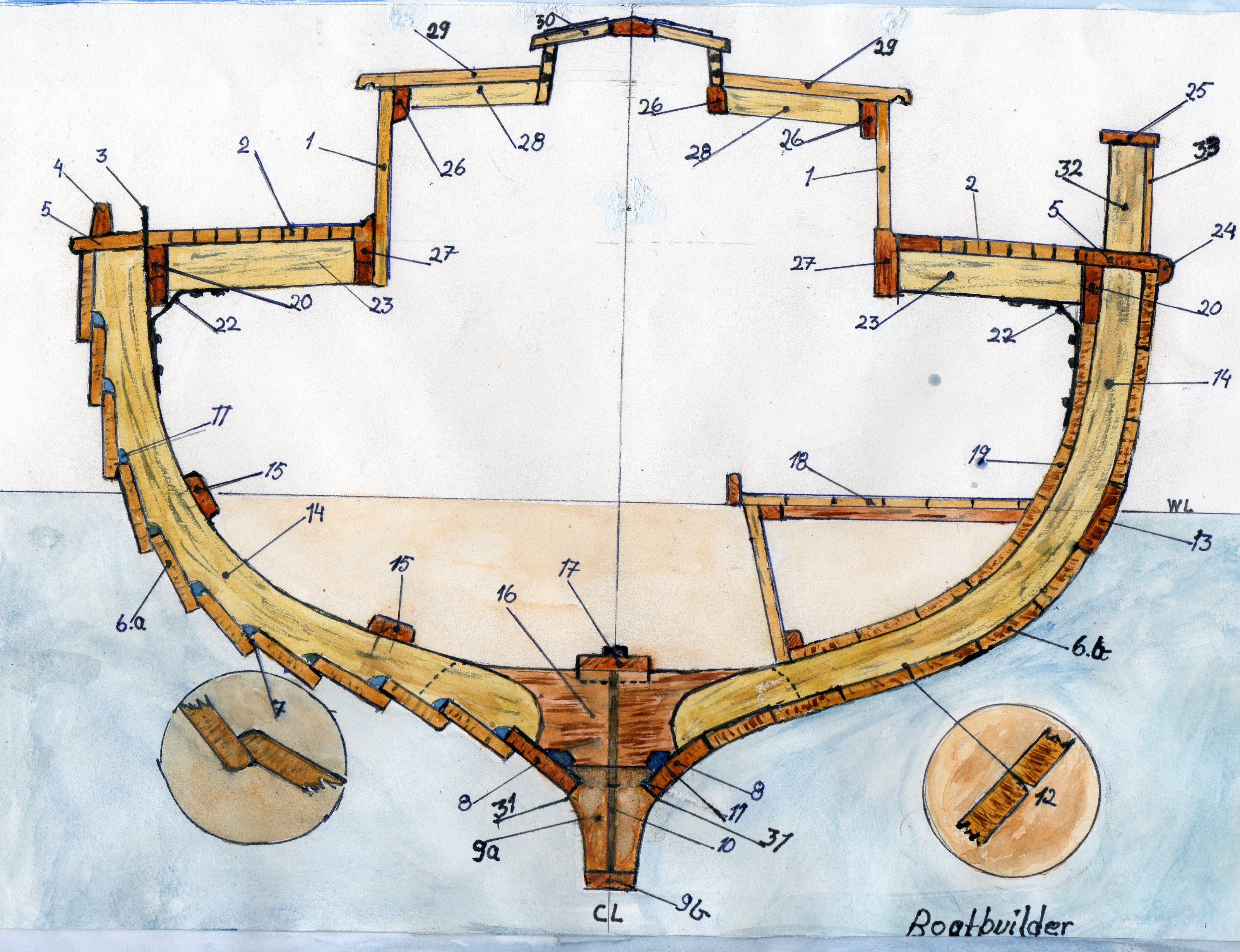 Illustrations with numbers from a midship section from a wooden boat